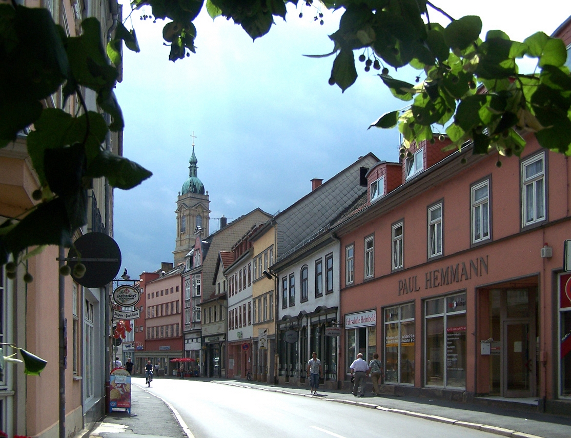 Eisenach, the east part of the Georgenstrasse.